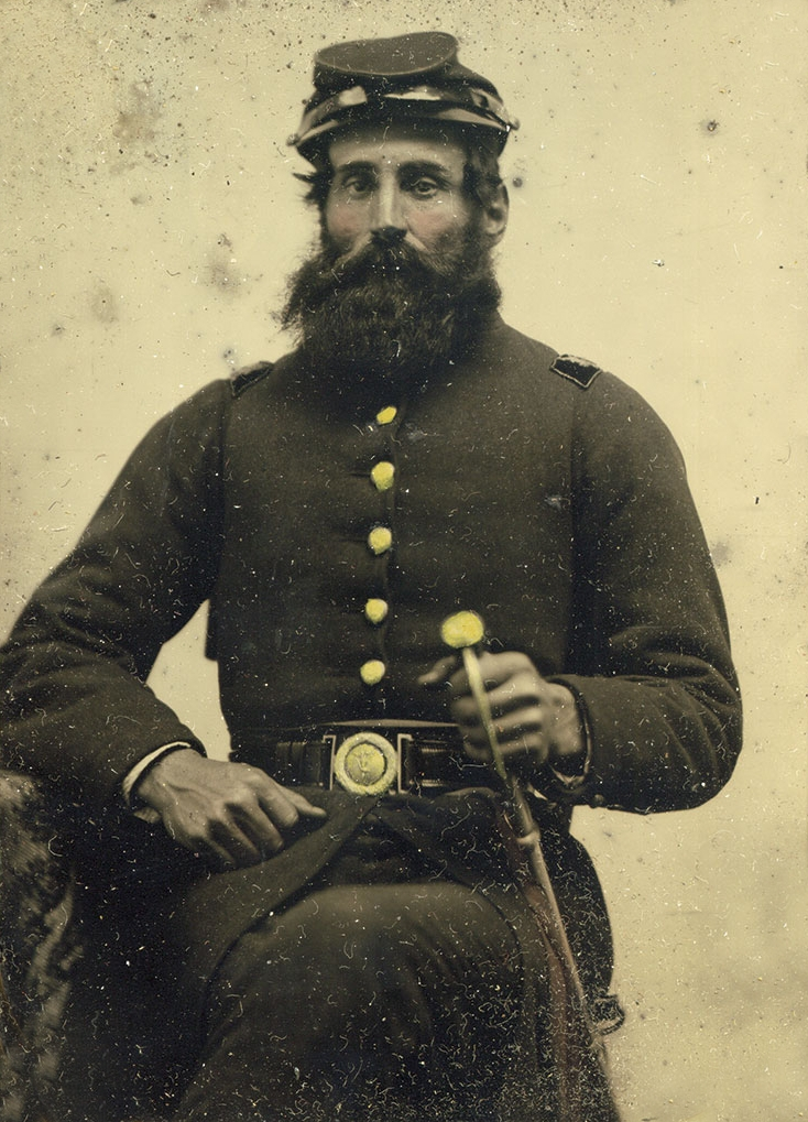 Arthur Campbell Cummings; Colonel of the 33rd Virginia Infantry, 1861-1862; captain in the Abingdon Home Guards, 1862-1865; Quarter-plate ambrotype by an anonymous photographer